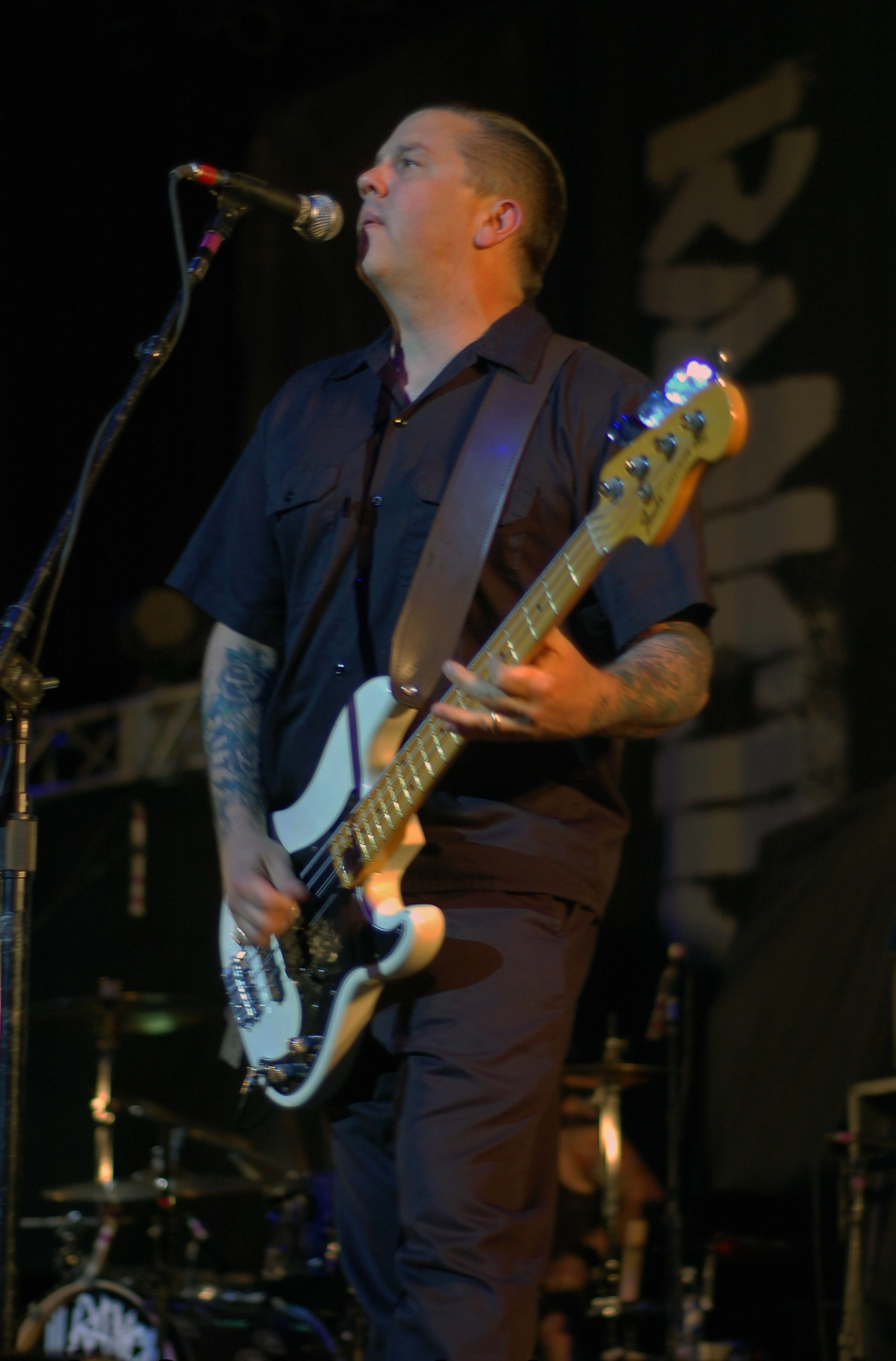 Matt Freeman in House of Blues, Boston